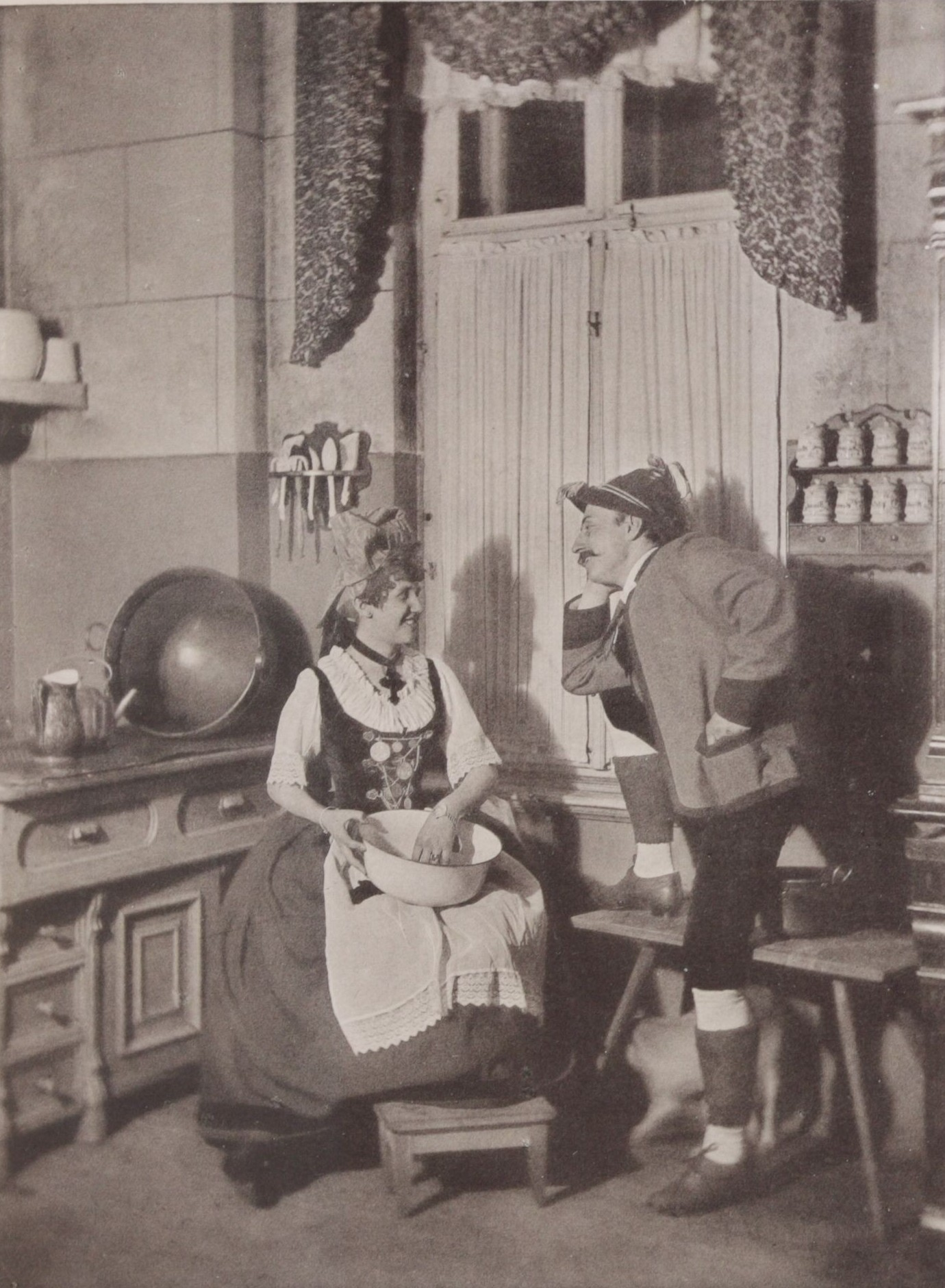 Group shot with magnesium flash